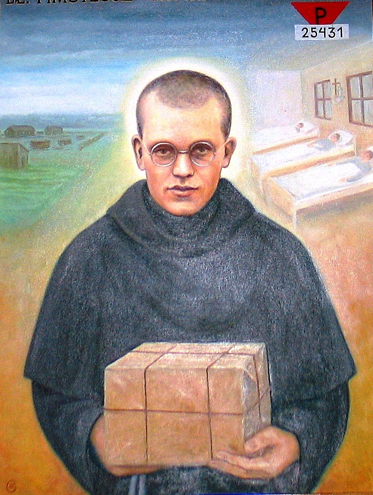 Picture of blessed Franciscan friar - Stanisław Tymoteusz Trojanowski, "old chapel" in Niepokalanów